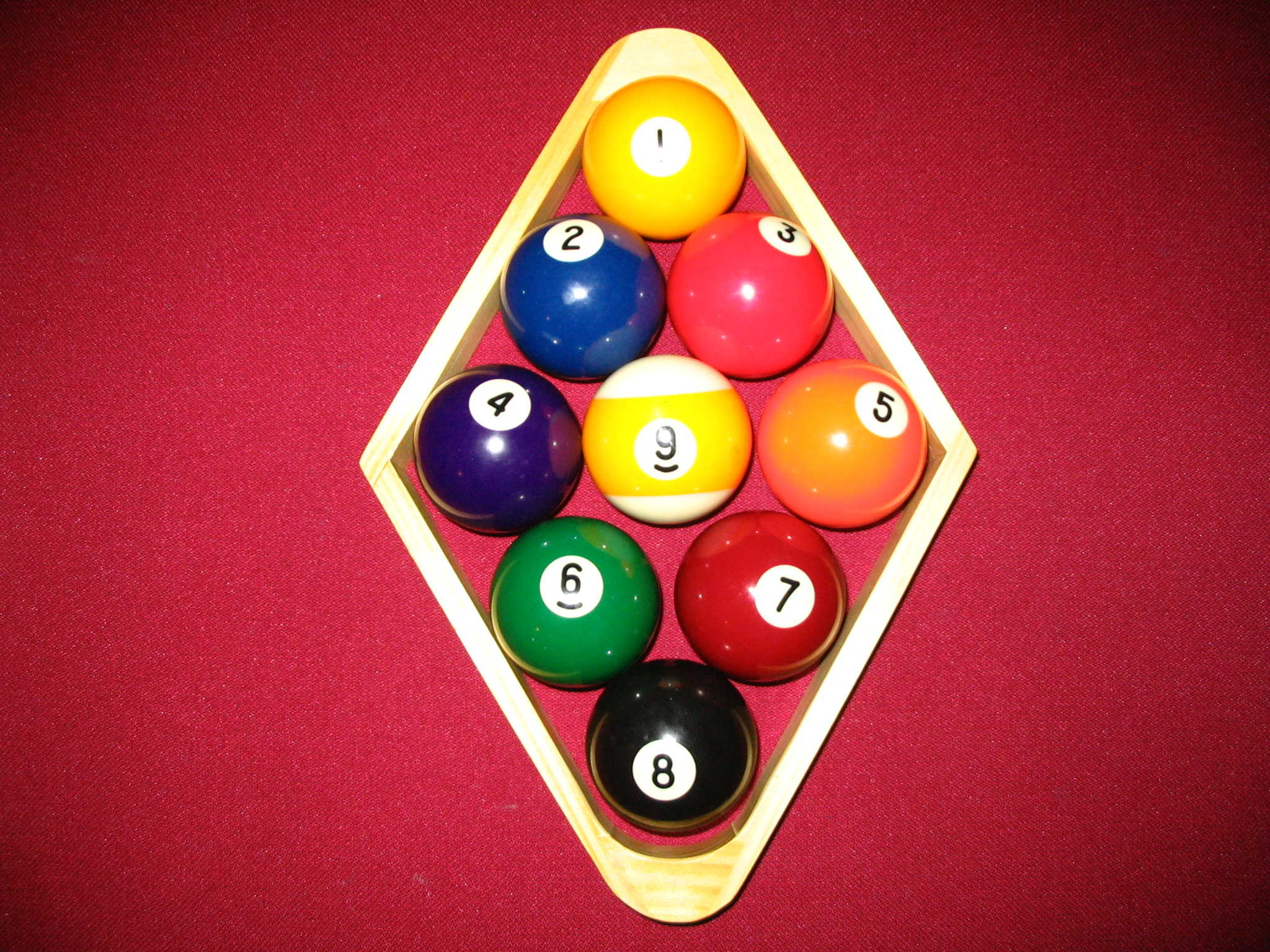 I took this photo on Feb 9, 2006.